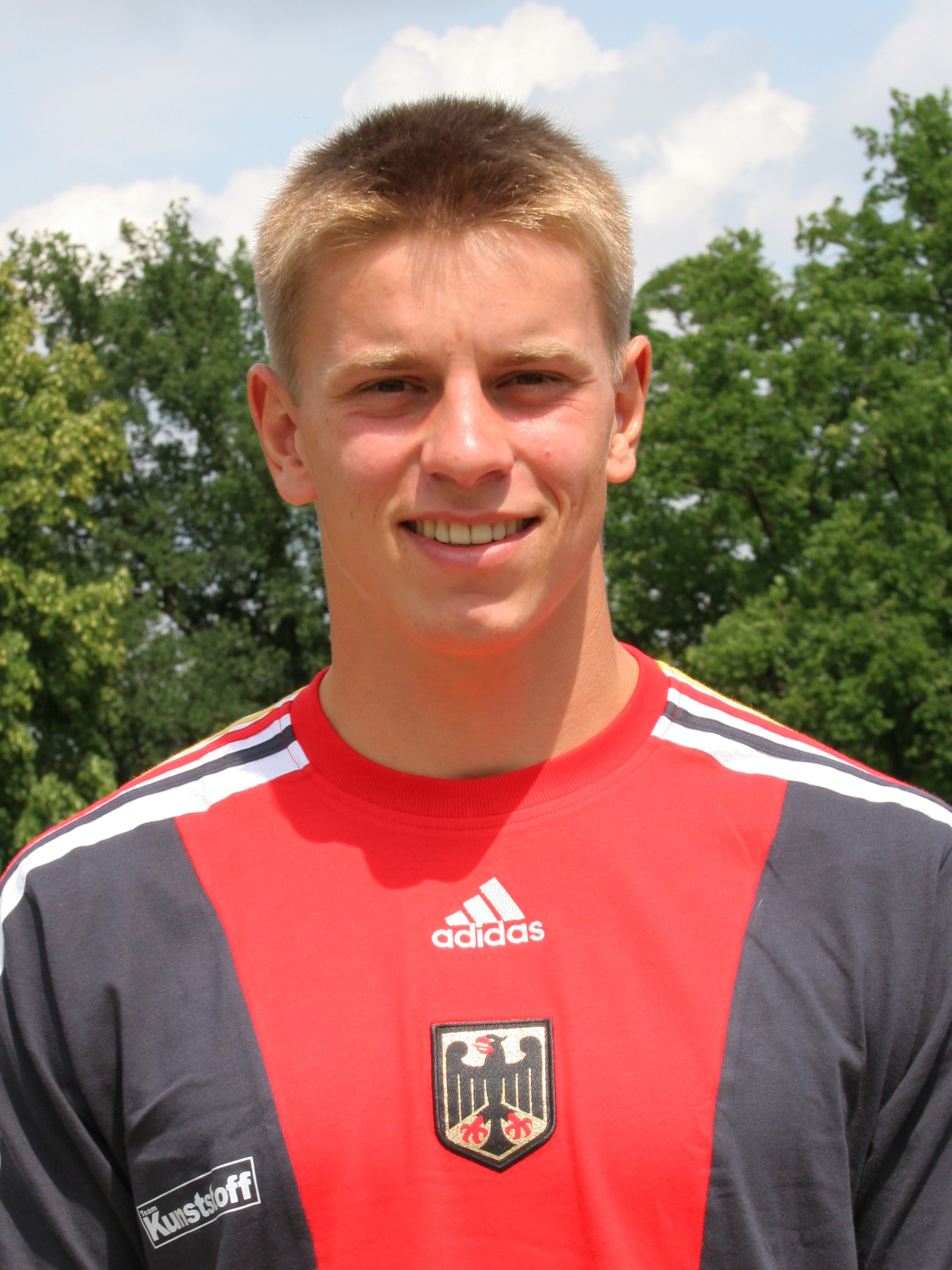 Erik Leue World Champion Canoe Sprint